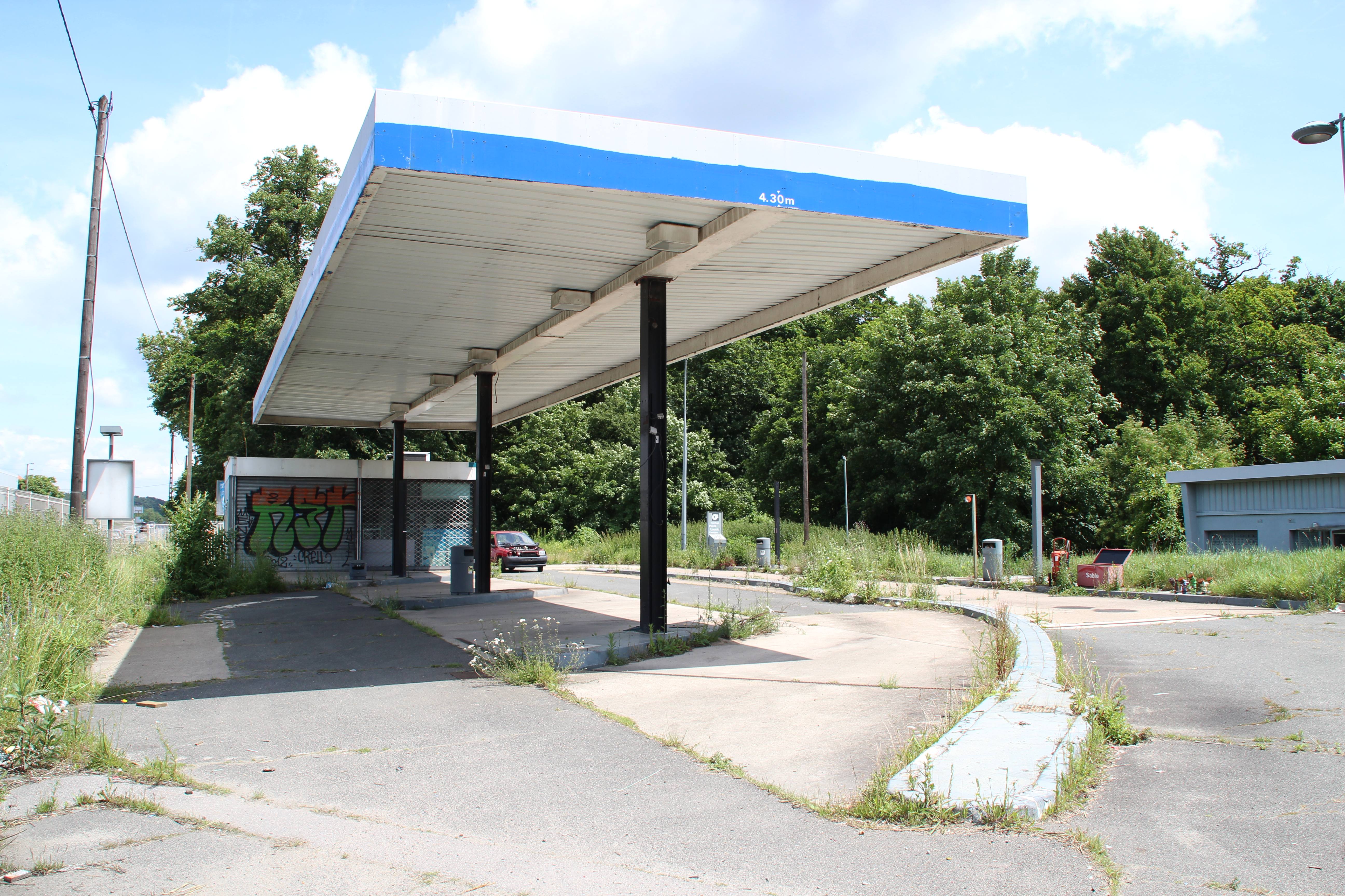 Abandoned gas station on the highway 20 at the entrance of Morigny-Champigny, France.